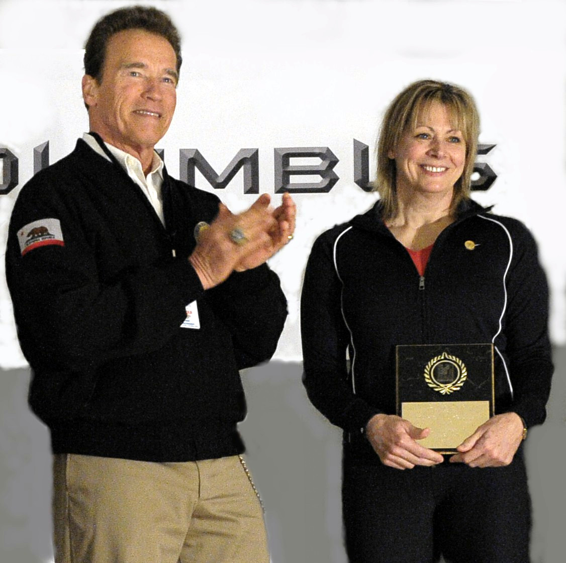 US weightlifter champion Karyn Marshall is inducted into the USA Weightlifting Hall of Fame as the Class of 2011; she receives an award from Arnold Schwarzenegger in Columbus, Ohio in March 2011.